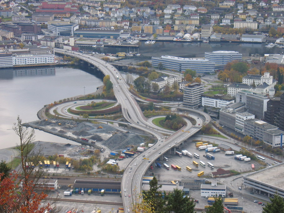 Intersection between E16 and E39 in Bergen. Map